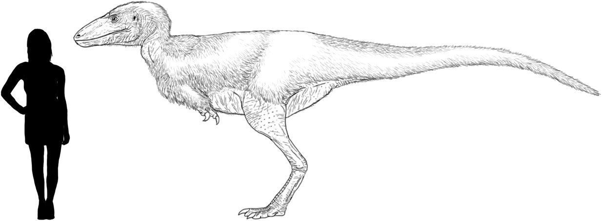 Alectrosaurus size chart reconstruction by Tom Parker.